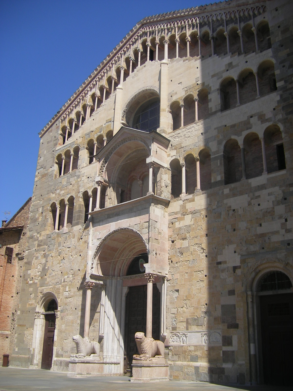 Parma Cathedral